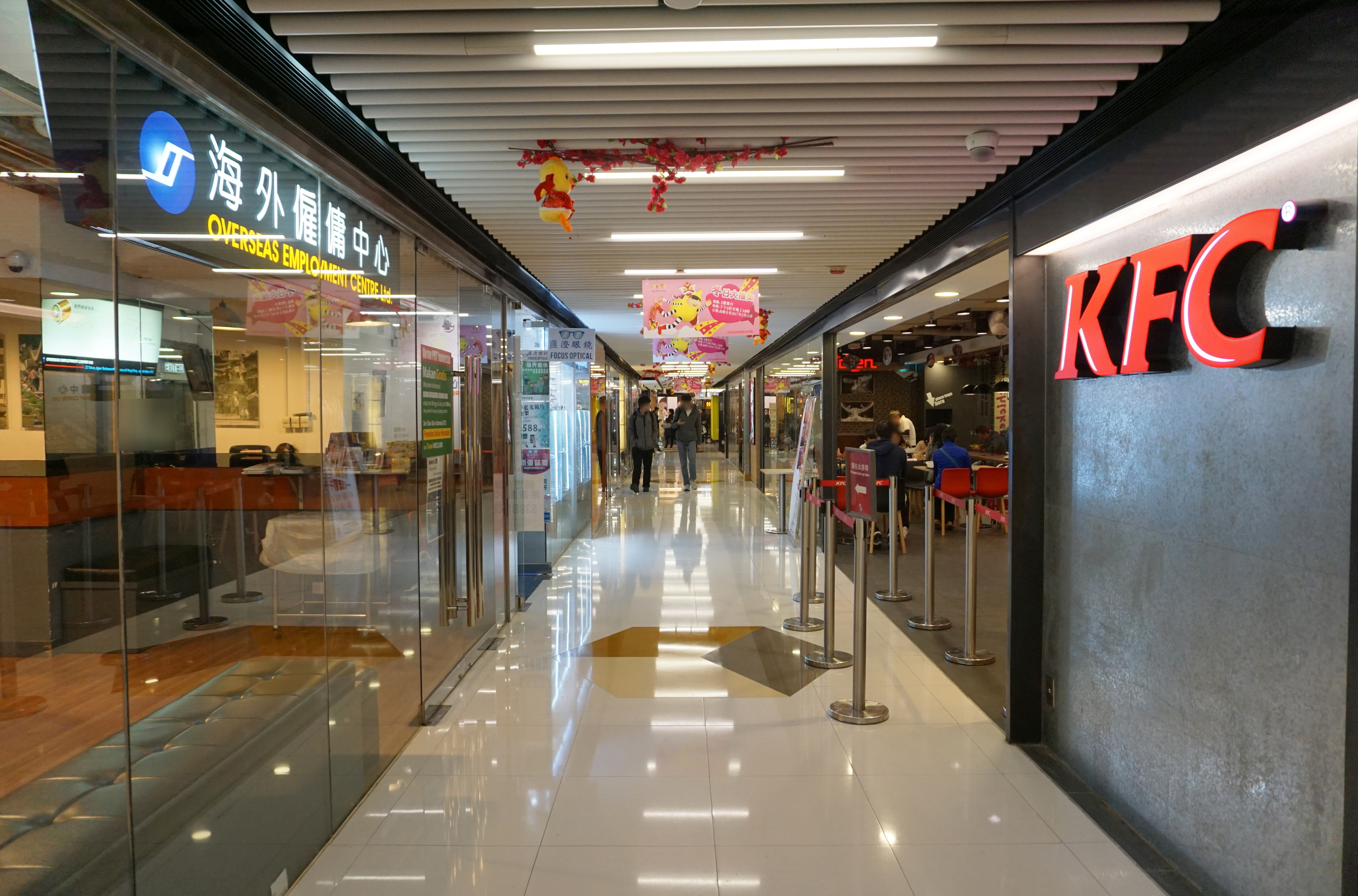 New Town Mall in Tsuen Wan, Hong Kong.